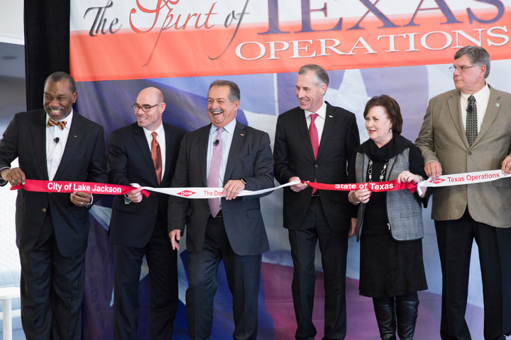 Andrew N. Liveris with community members (leaders) in Lake Jackson, Texas, opening of Texas Innovation Center, in January 2016.